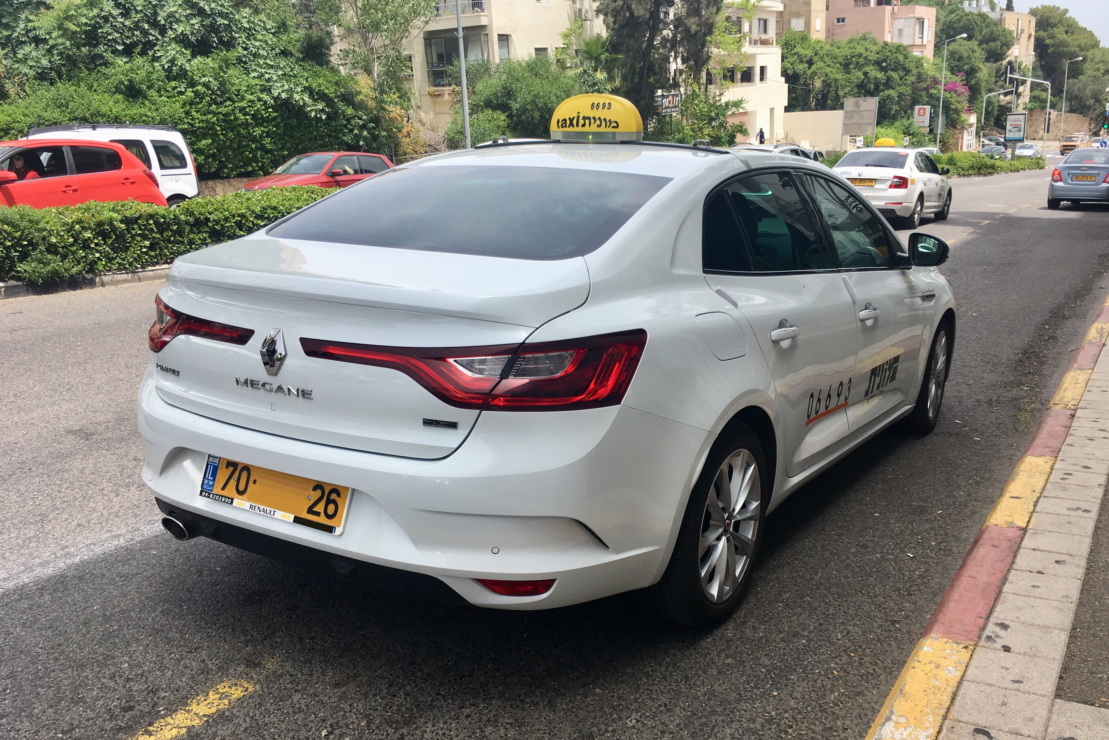 Renault Megane Grand-Coupe Taxi in Haifa, Israel